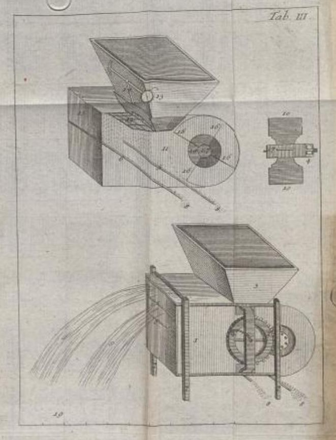 Lehrbuch für die Land- und Haußwirthe, 1782, plate III